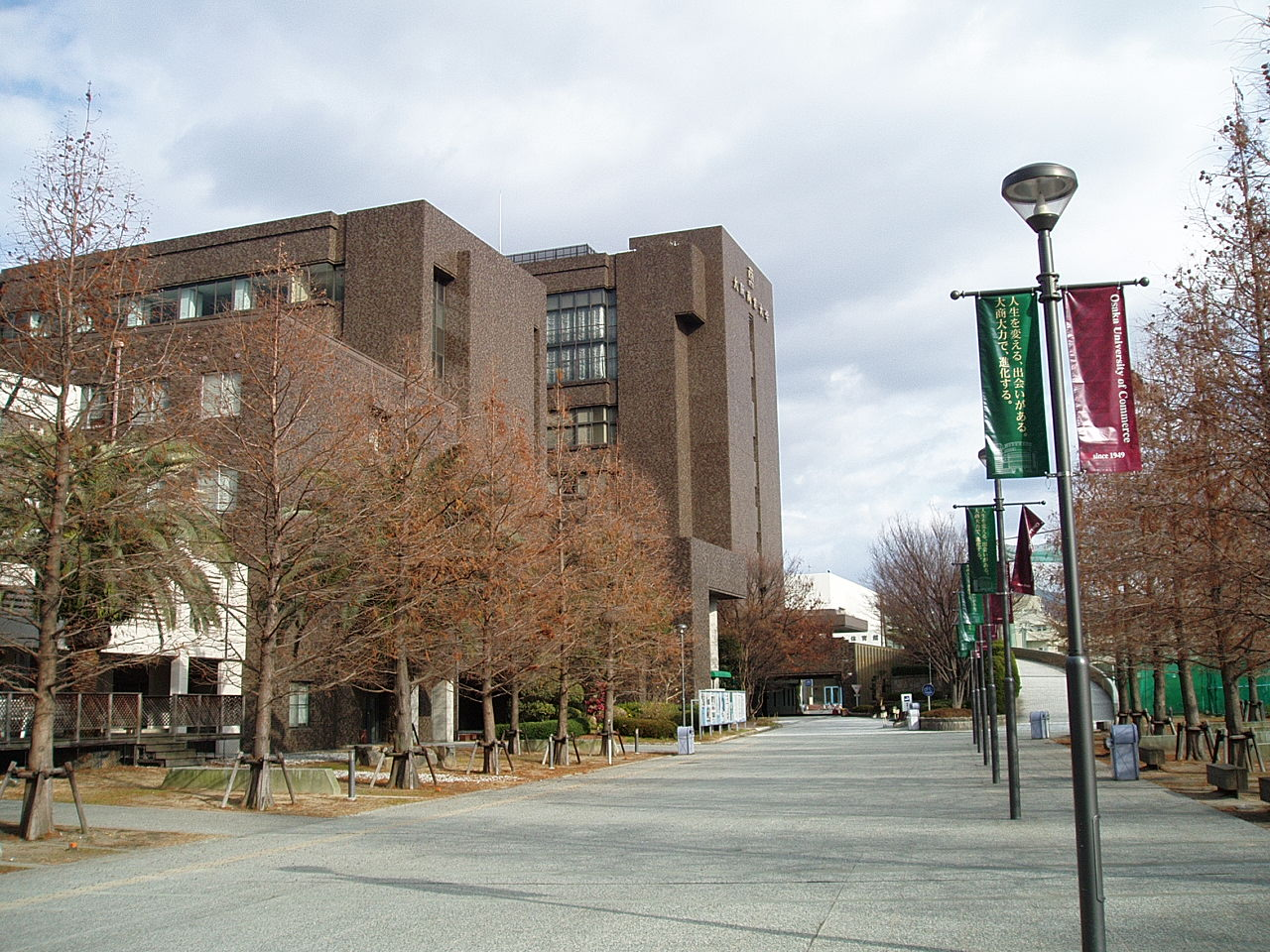 Osaka University of Commerce. Located in Higashiōsaka, Osaka Prefecture, Japan.